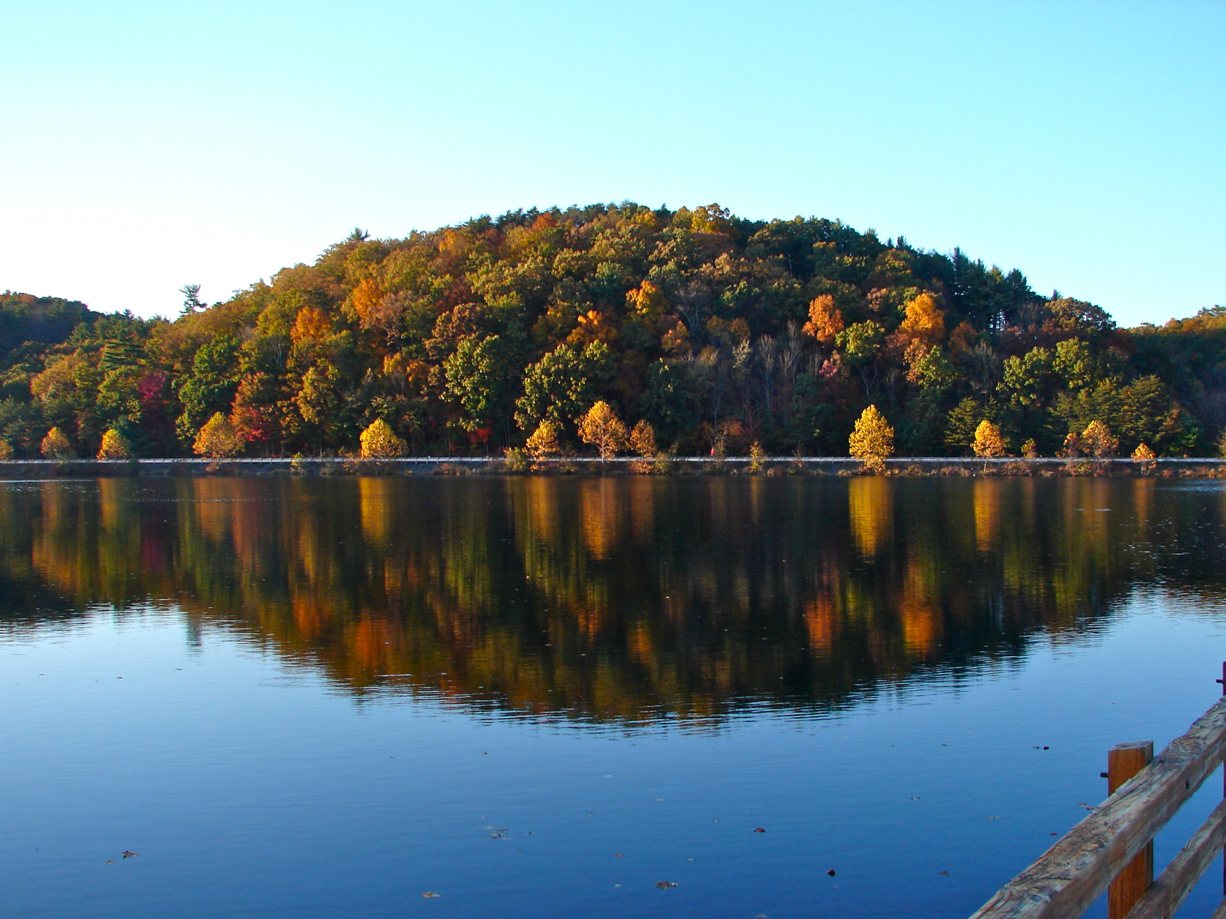 Lake and hills with turning leaves in Little Buffalo State Park, Perry County, Pennsylvania. Near Newport